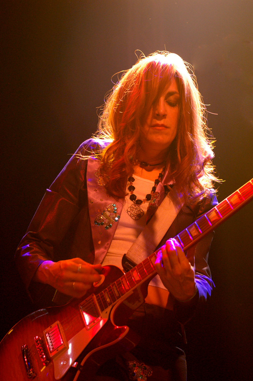 Picture of the guitarist of Lez Zeppelin